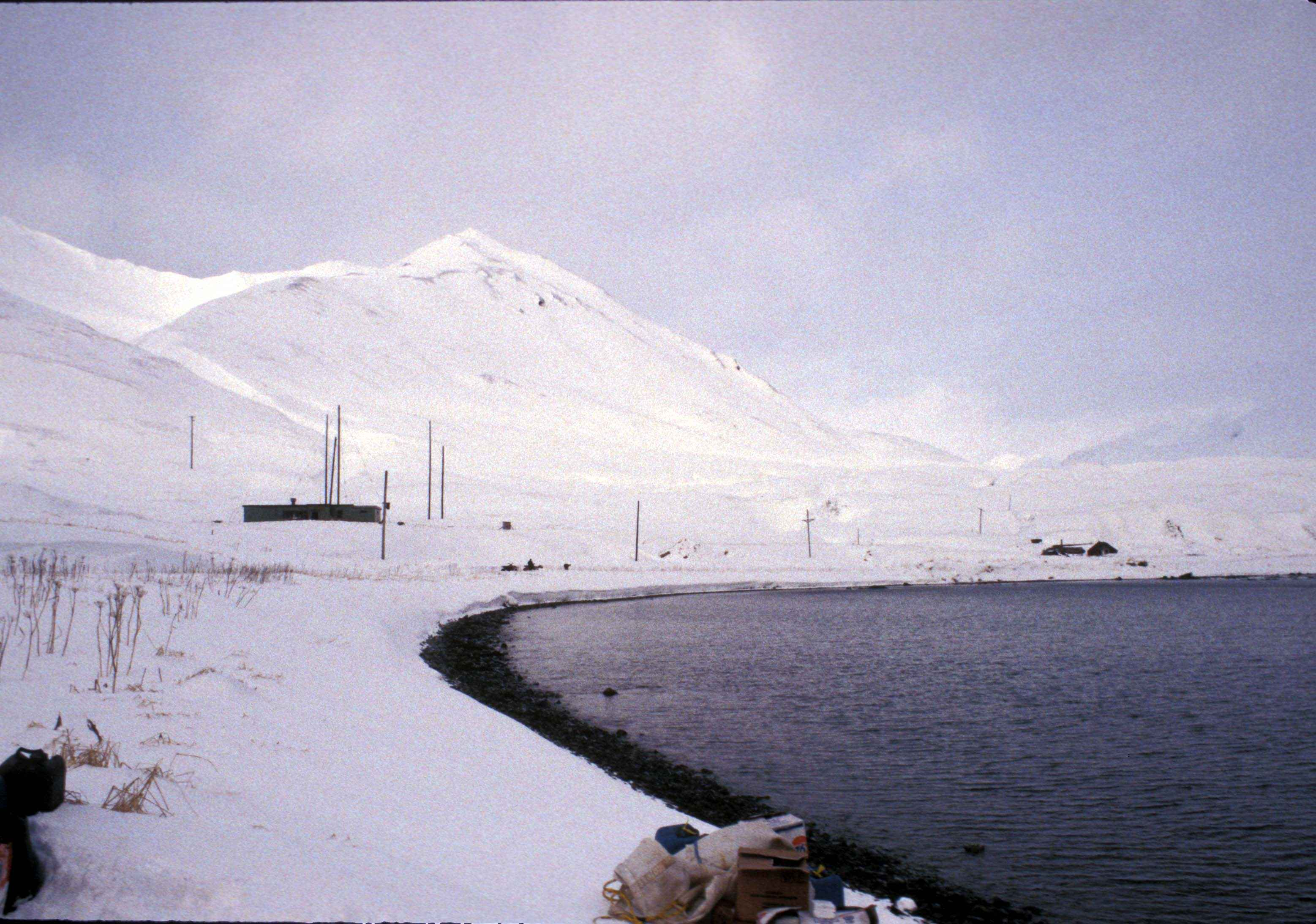 Image title: Attu island casco cove upper base Image from Public domain images website